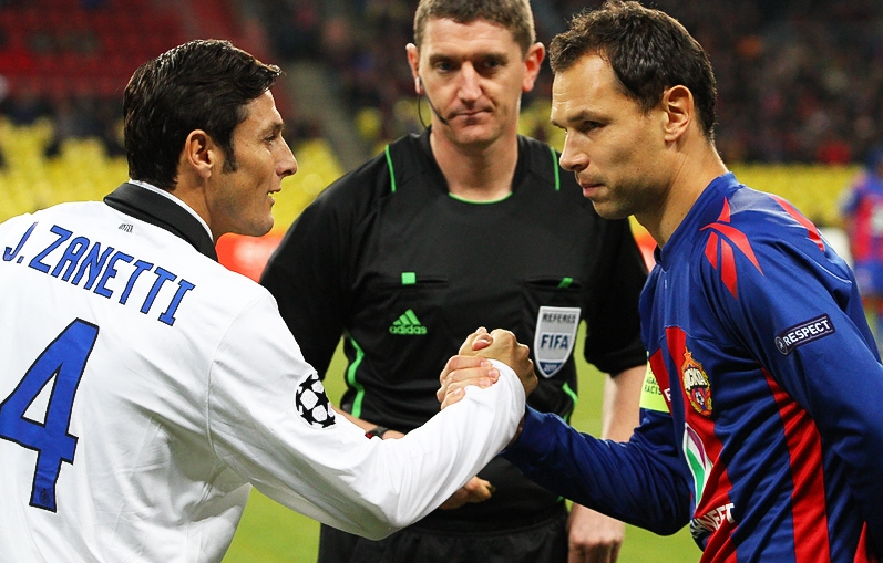 Internazionale and CSKA Moscow captains - Javier Zanetti and Sergei Ignashevich (27.09.2011)